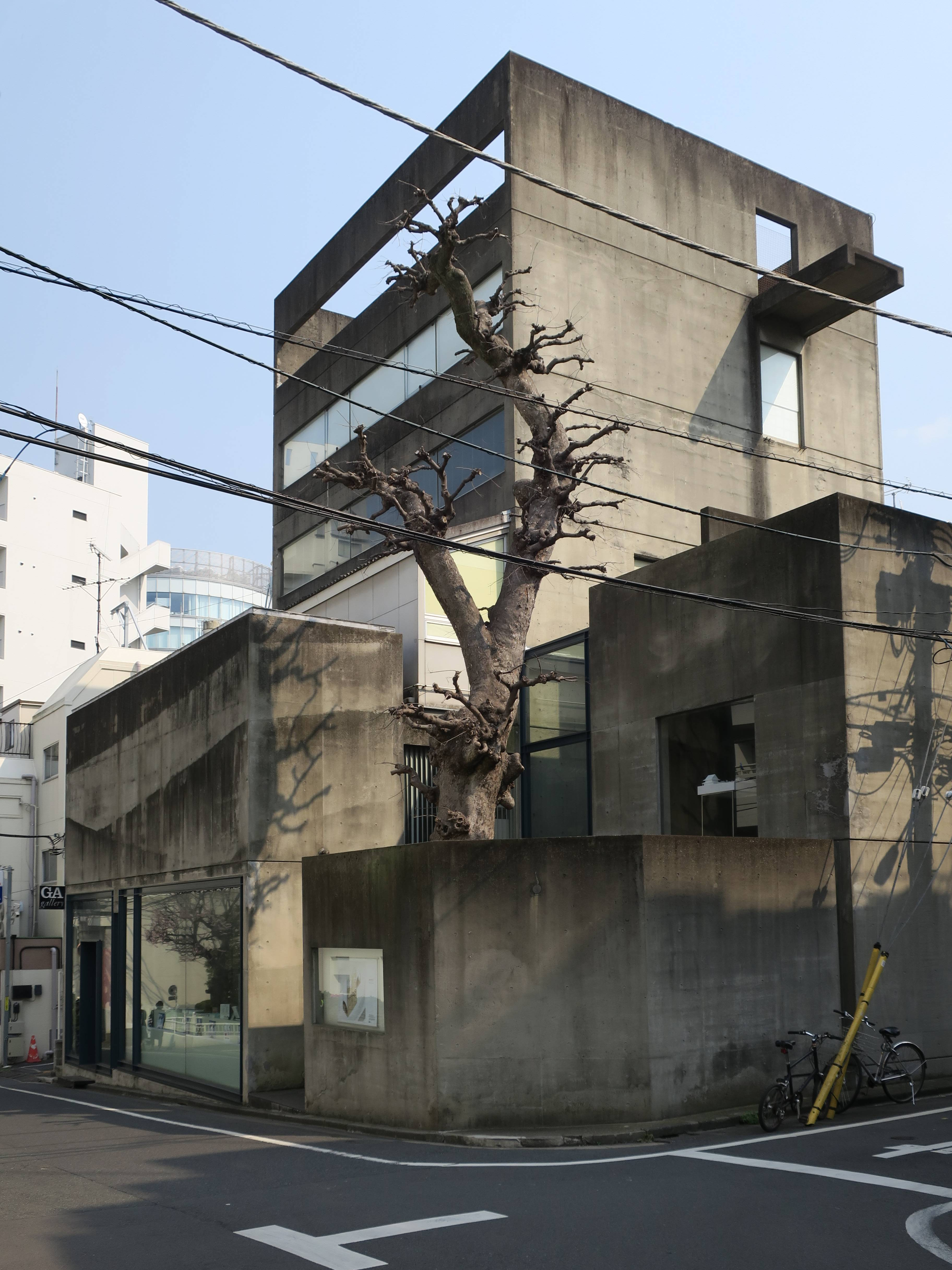 GA Gallery (Sendagaya, Shibuya, Tokyo).